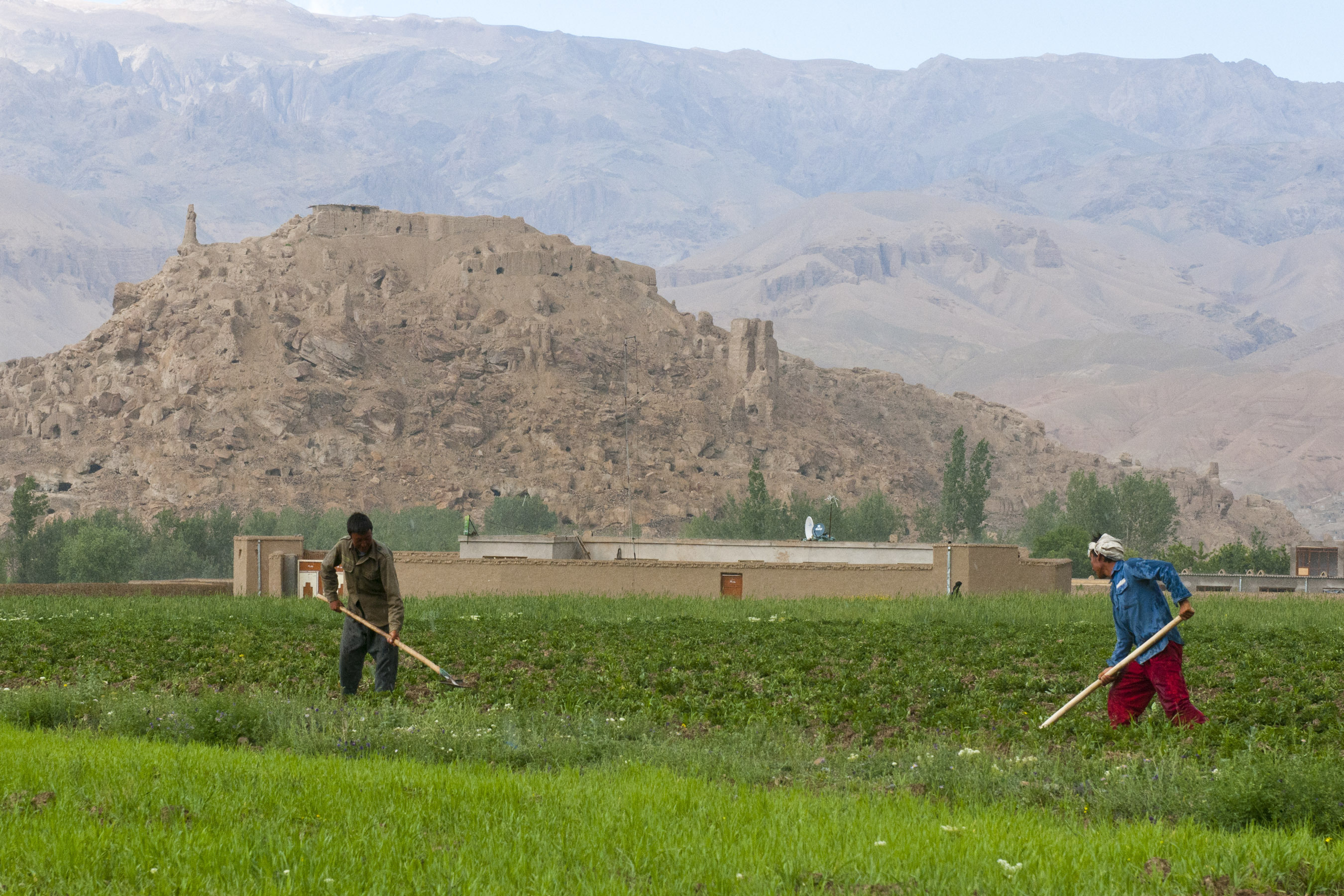 Two local farmers tend to their potato field June 17, 2012. Potatoes have become the biggest cash crop for the large farming community in Bamyan - thanks in large part to efforts by the Bamyan Provincial Reconstruction Team. The collection of ancient fortifications on the hill behind them is known as Shahr-e Gholghola or the "City of Screams." In the 13th century, the inhabitants of Bamyan made their last stand against Ghenghis Khan there and lost. (Photo ID: 607633)